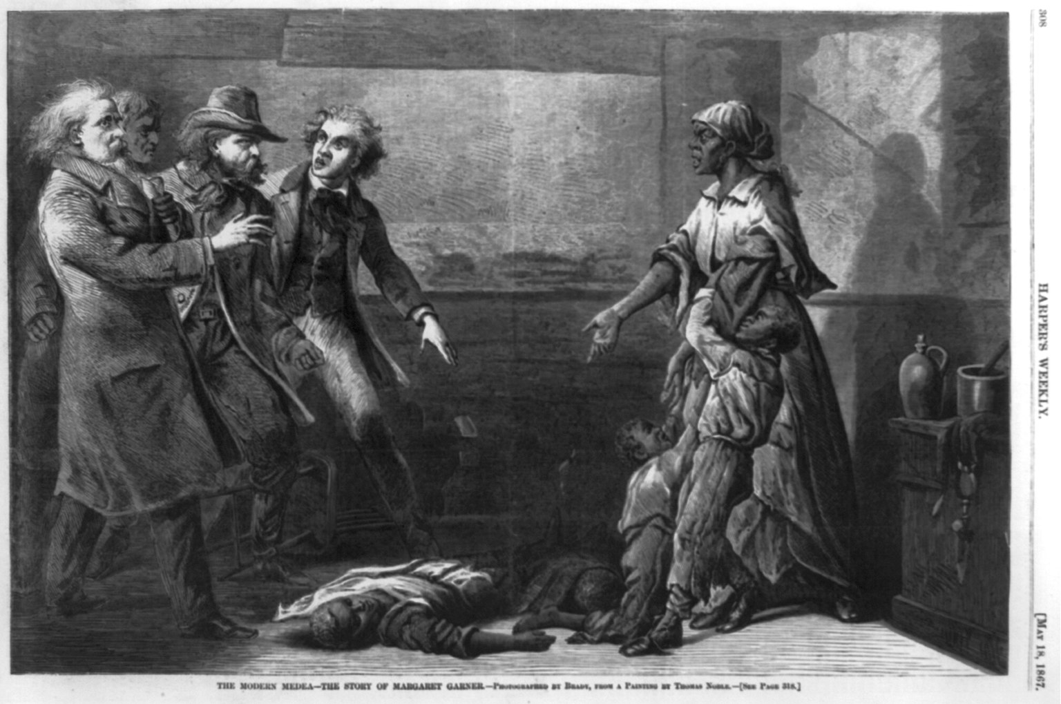 Title: The modern Medea - the story of Margaret Garner [Margaret Garner, a slave who escaped from Kentucky to Ohio; her 4 children, 2 of which she killed so they would not have to endure slavery, lying dead on floor; and 4 men who pursued her] Abstract/medium: 1 print : wood engraving.